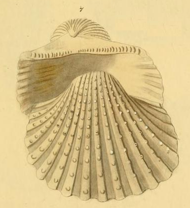 Tegillarca granosa (Linnaeus, 1758), Arcidae, Bivalvia, Mollusca, from Kobelt (1891: pl.3, fig.7)